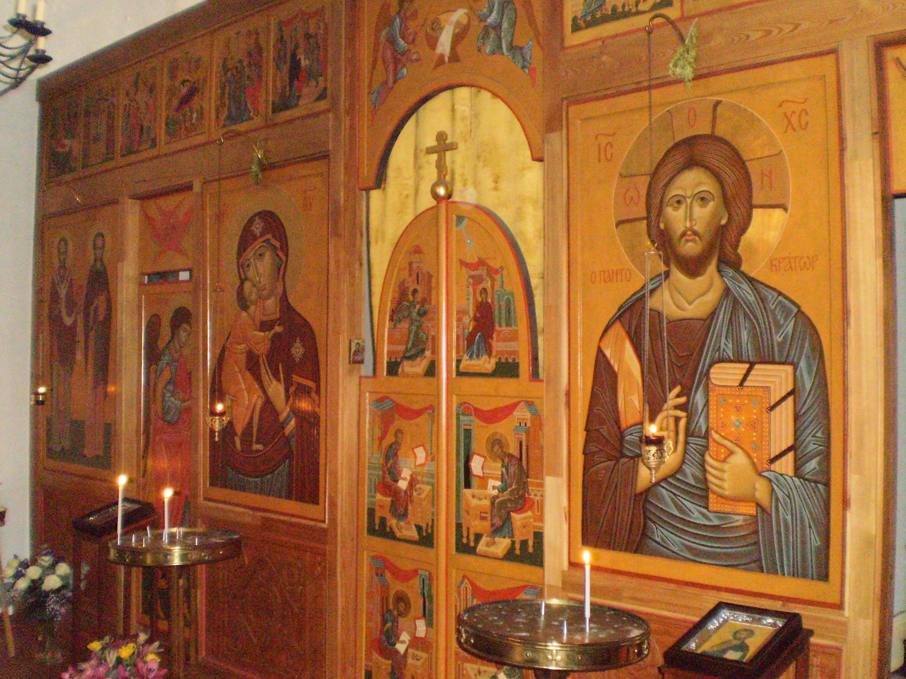 Iconostasis in Russian Orthodox Church, Deventer, the Netherlands